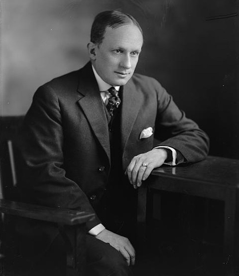 Warren I. Lee, Congressman from New York